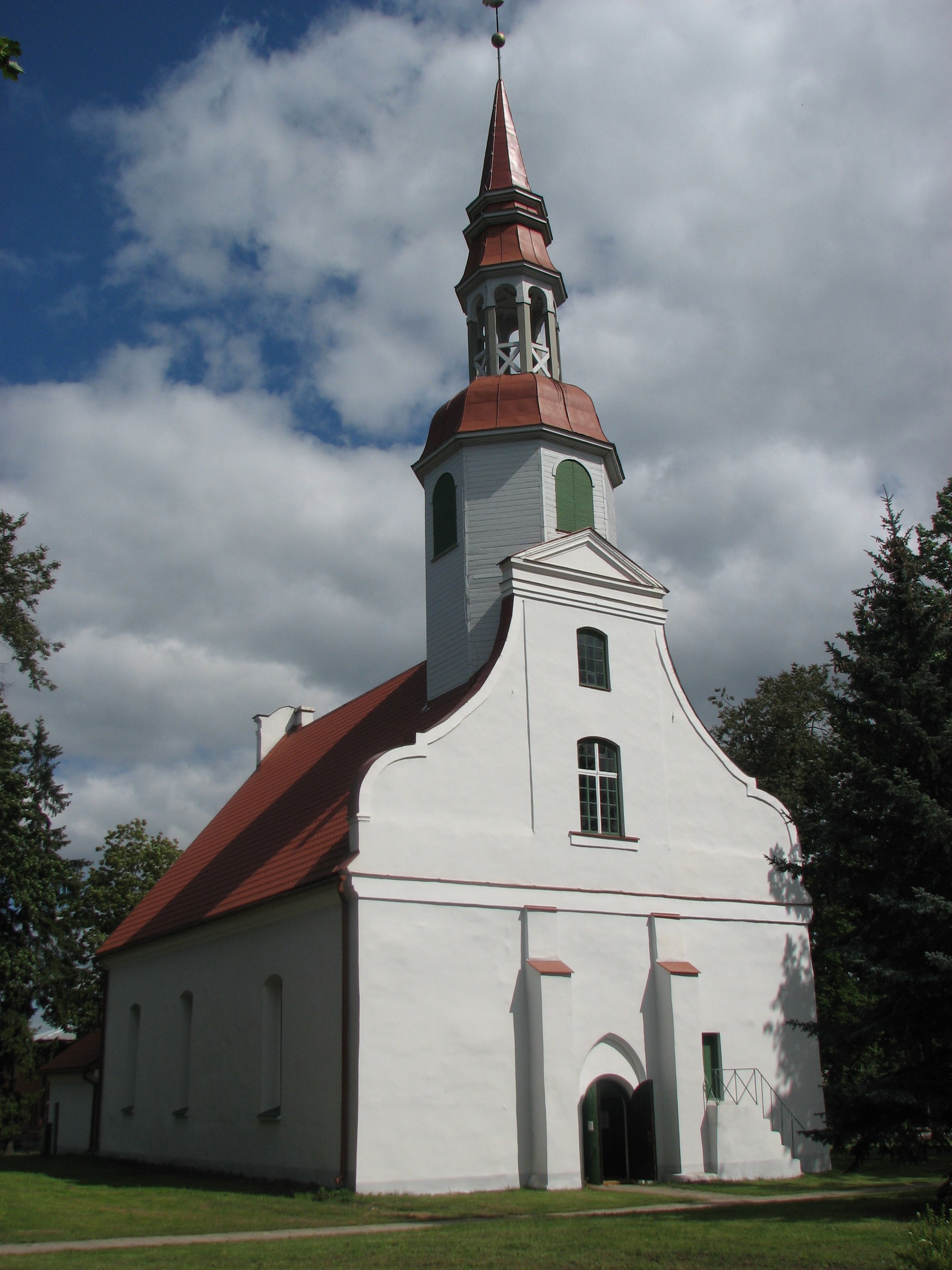 St. Catherine Lutheran church of Valka, Latvia